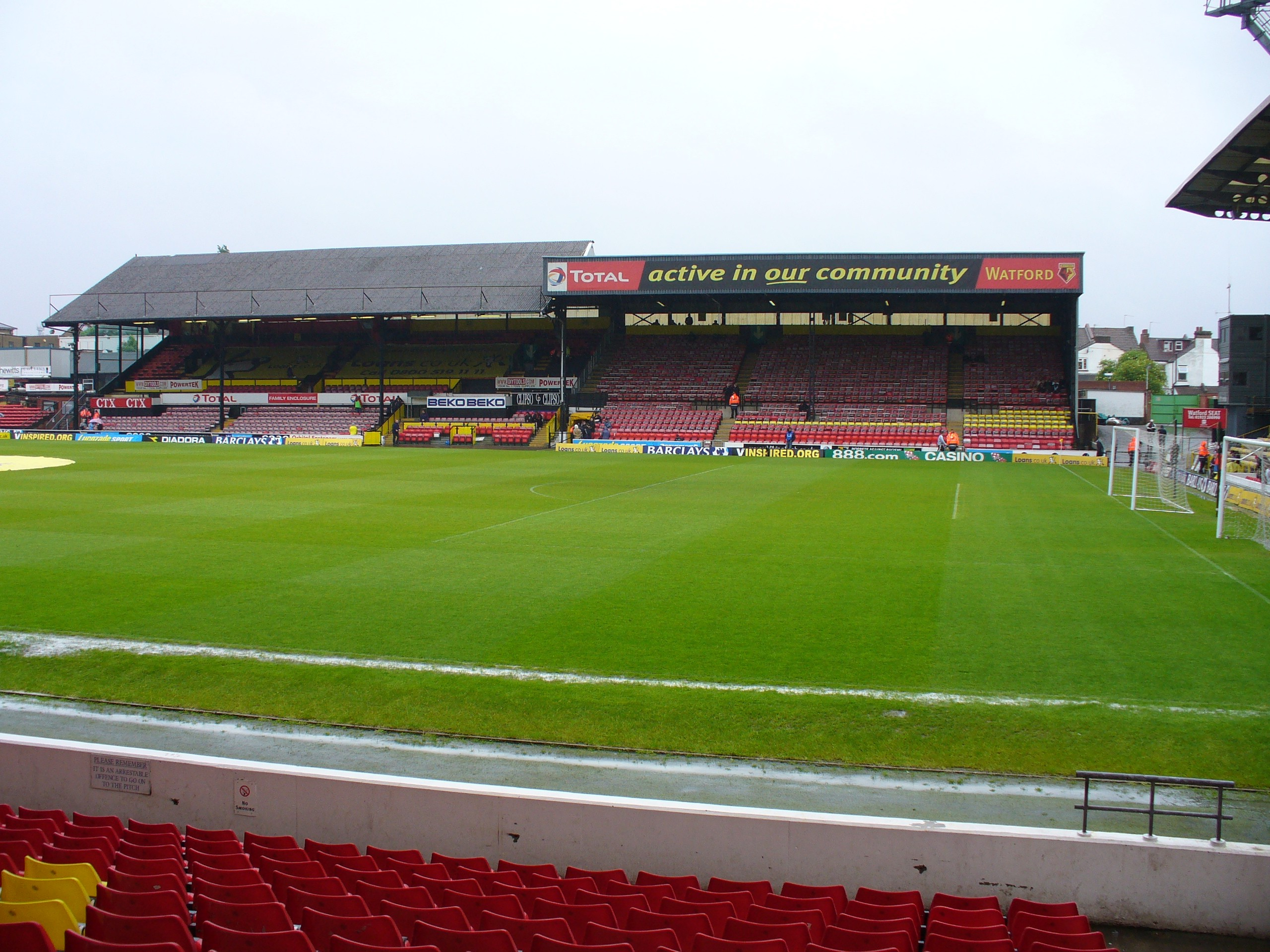 The Main Stand at Vicarage Road, the home of Watforde FC